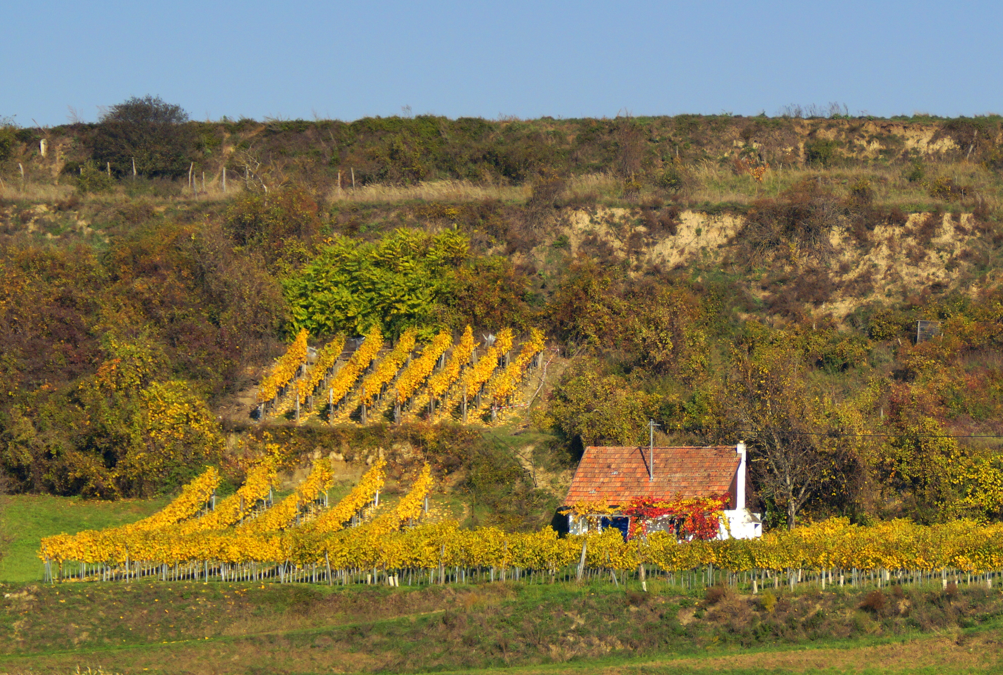 Vineyards on Wagram terrace - near Kirchberg am Wagram - Oktober 2015